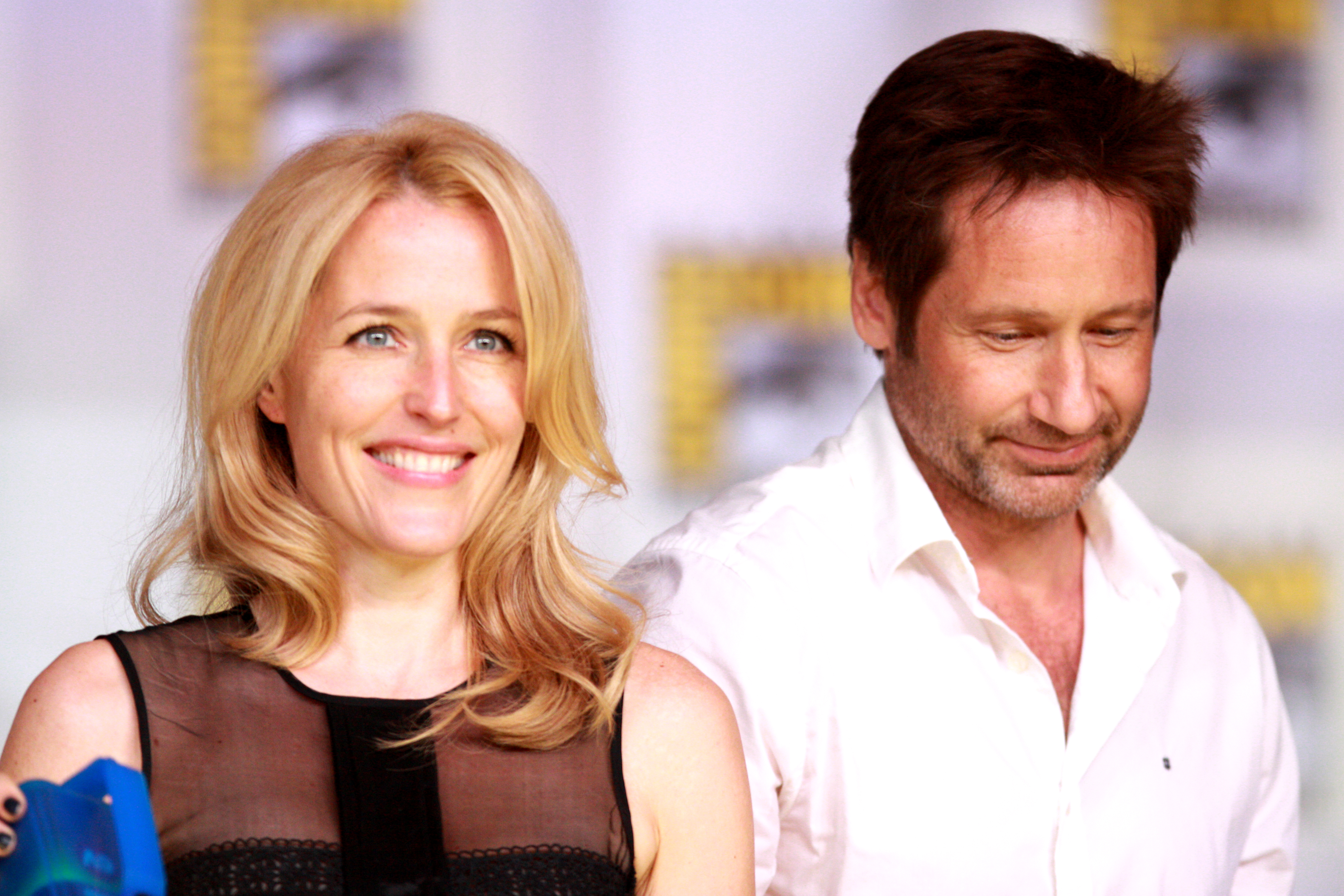 Gillian Anderson and David Duchovny speaking at the 2013 San Diego Comic Con International, for "The X-Files" 20th Anniversary panel, at the San Diego Convention Center in San Diego, California.